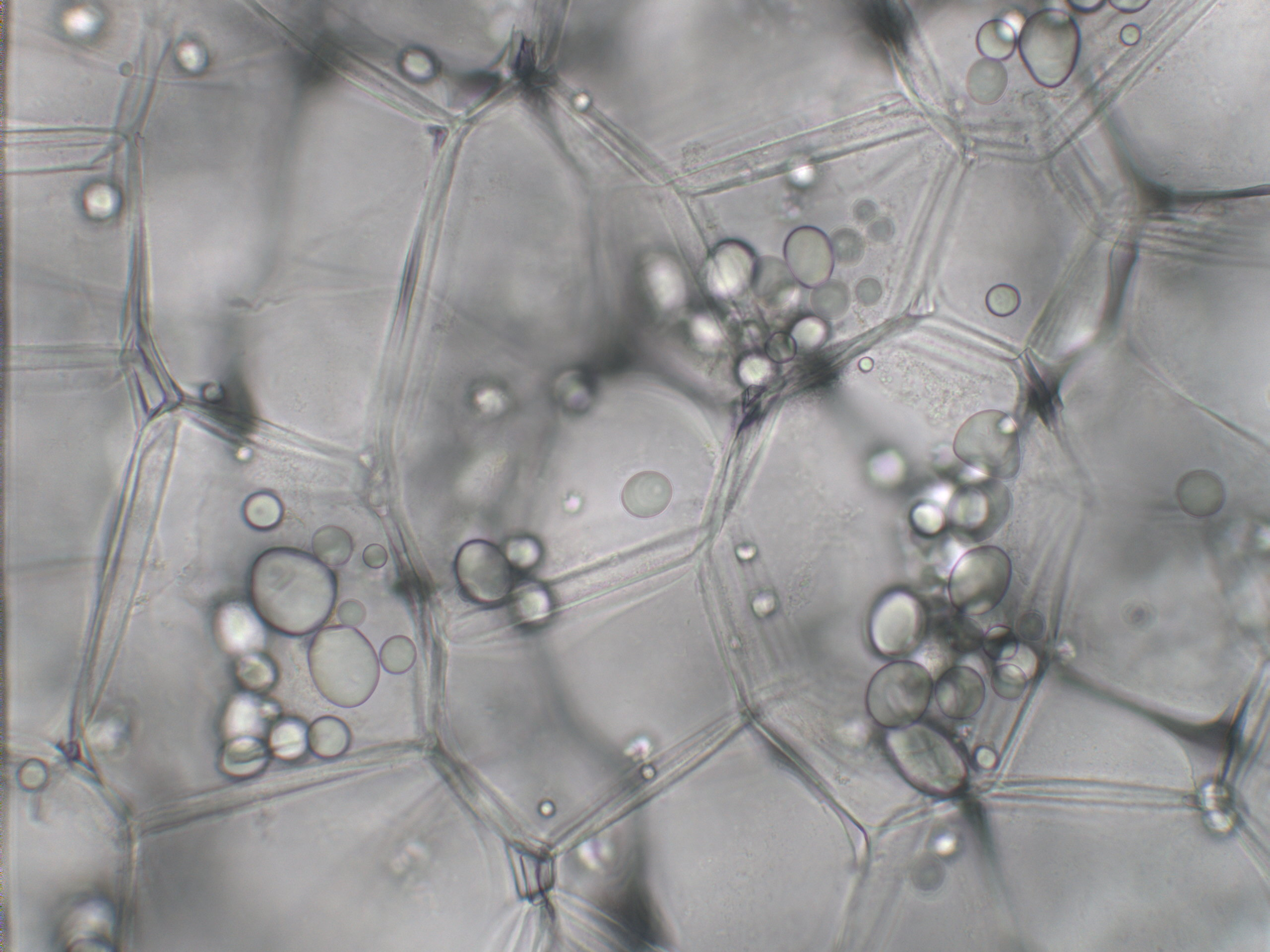 Amyloplasts in the root cells of potato